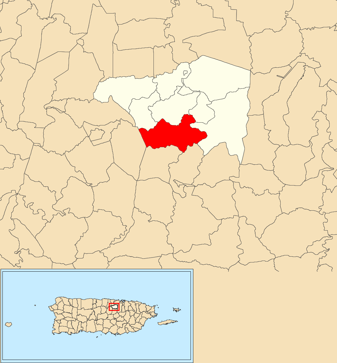 Quebrada Cruz, Toa Alta, Puerto Rico locator map